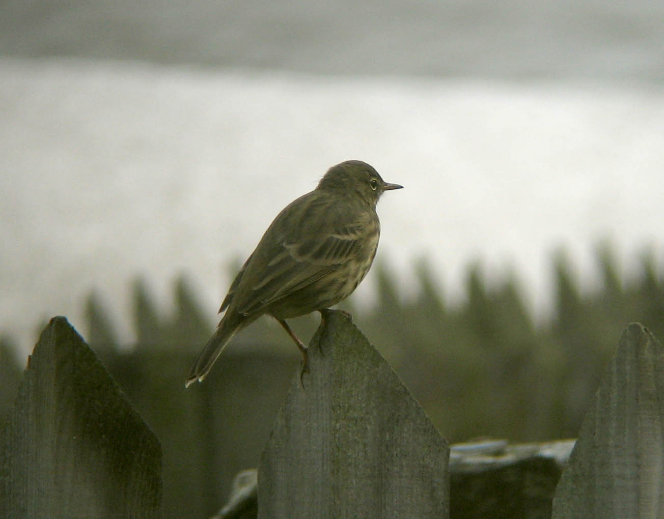 Rock Pipit Anthus petrosus, St Mary's Island, Northumberland, UK